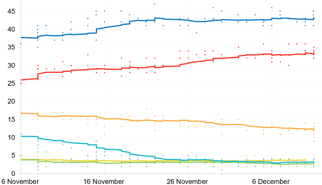 Polling for the campaign period of the 2019 UK General Election.